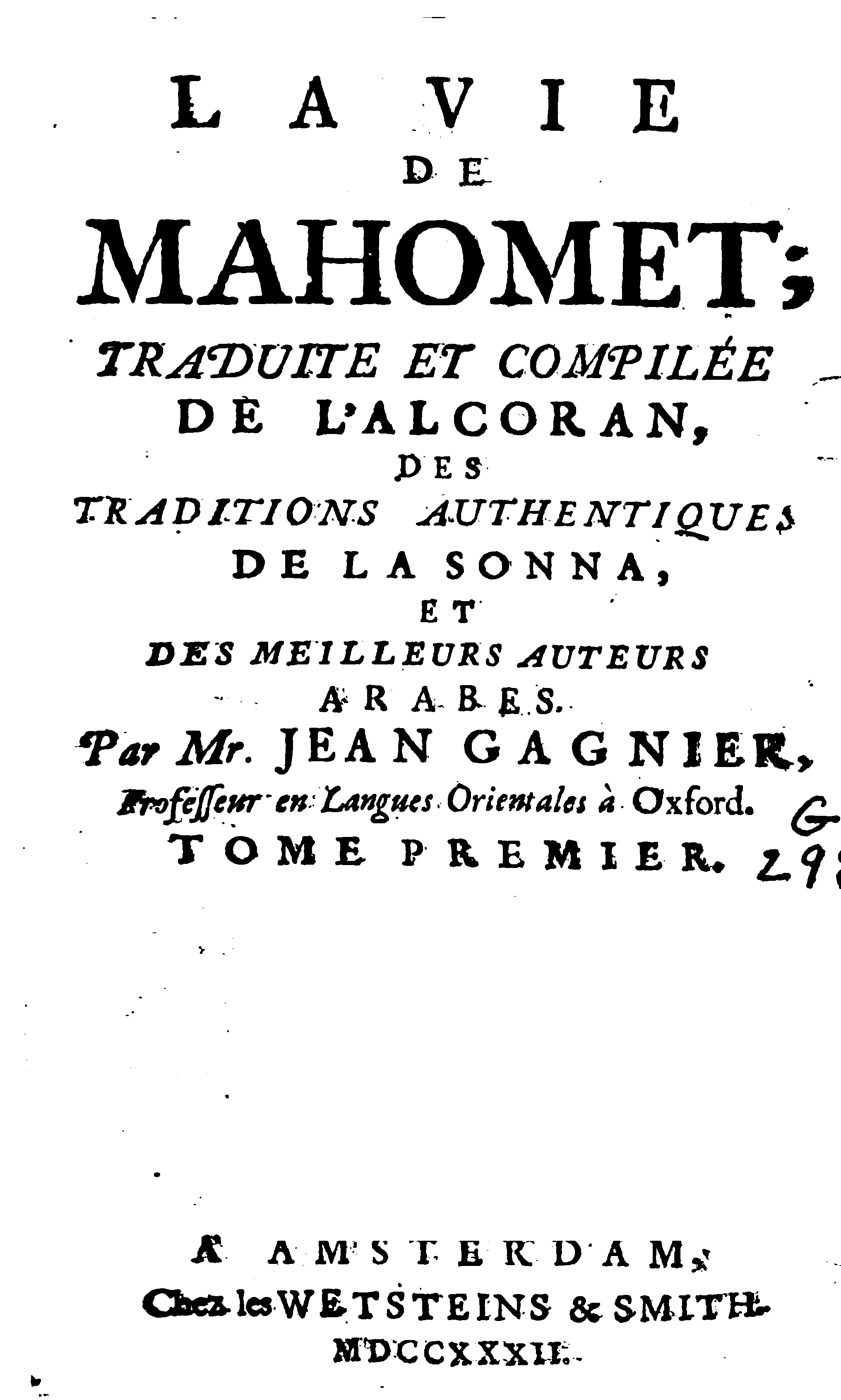 Title page of Jean Gagnier, La vie de Mahomet, 1732, translated into french from an original in latin, 1723, translated from Abu'l-Fida.